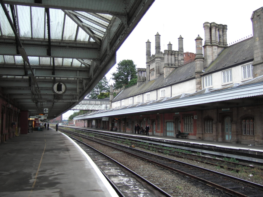 Shrewsbury railway station, Shrewsbury, Shropshire. Note that Shrewsbury Castle and Shrewsbury Abbey are both visible.